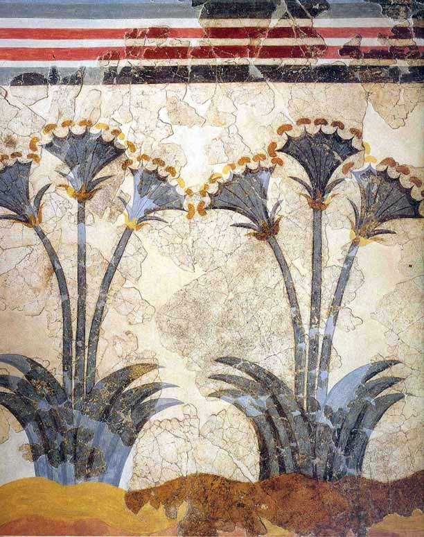 Fresco of papyrus plants from the bronze age excavations of Akrotiri on the greek island Santorini